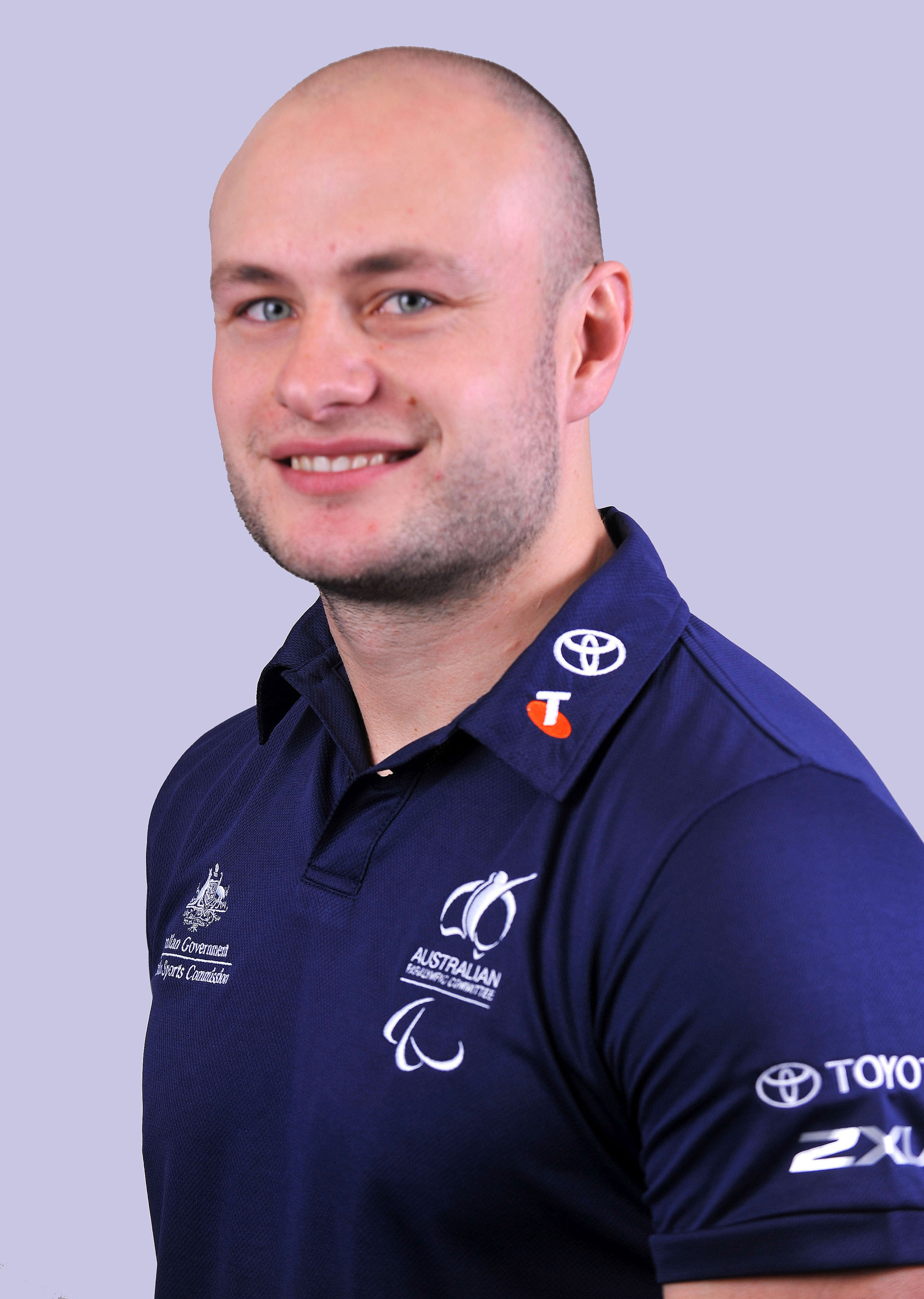 Portrait of Australian wheelchair rugby player Chris Bond, 2012 Australian Paralympic (shadow) Team athlete